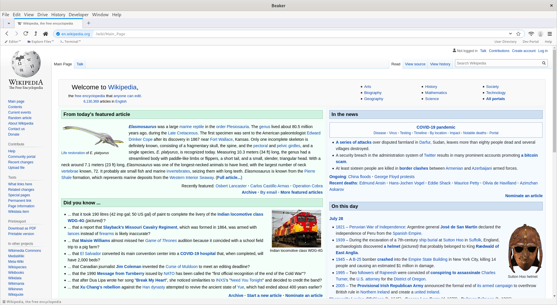 Screenshot of the English Wikipedia home page as it appeared at 2020-07-28T11:30:14+00:00 in the Beaker browser 1.0.0 prerelease 7 running on Fedora 31 using Gnome 3.34